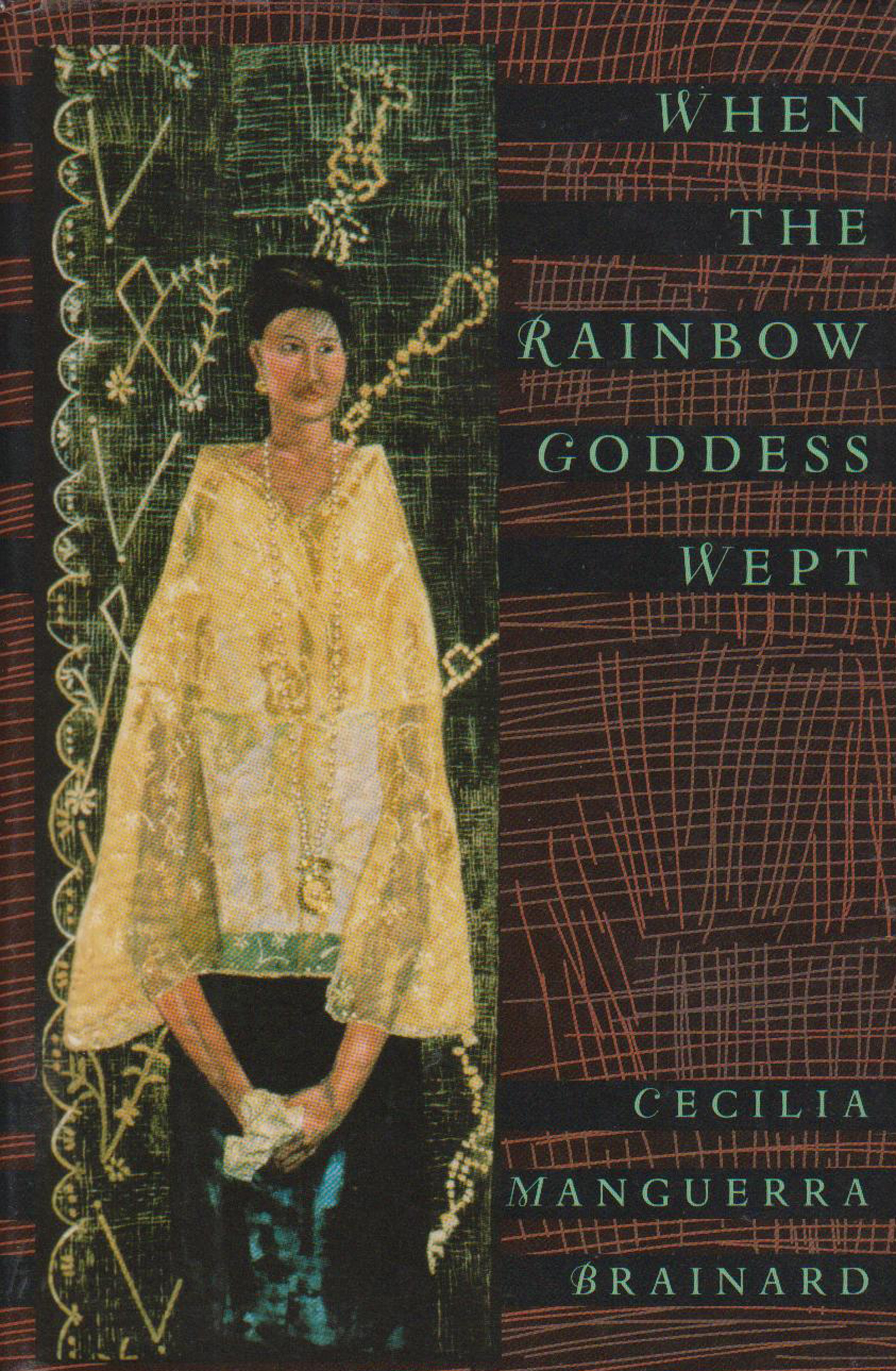 Cover of the novel When the Rainbow Goddess Wept